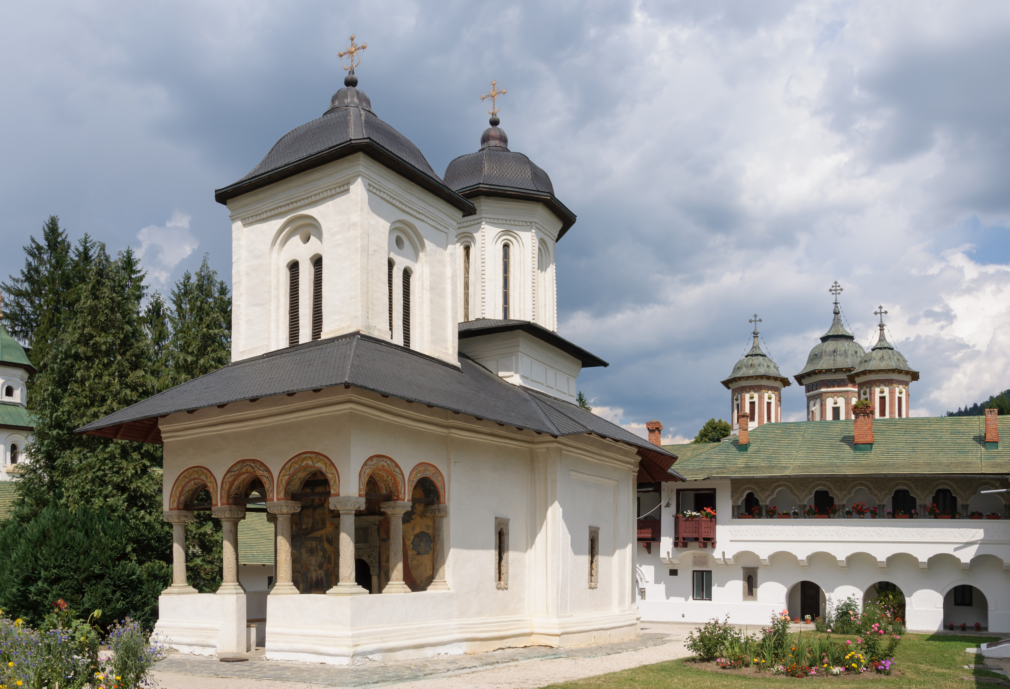 The Old Church (Biserica veche, 17th-century) of the Sinaia Monastery, Sinaia, Prahova County, Romania.